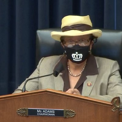 I’ve never chaired a committee meeting like this before.